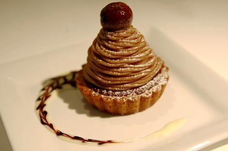 mont blanc at Azuma Patisserie Tamara Dean